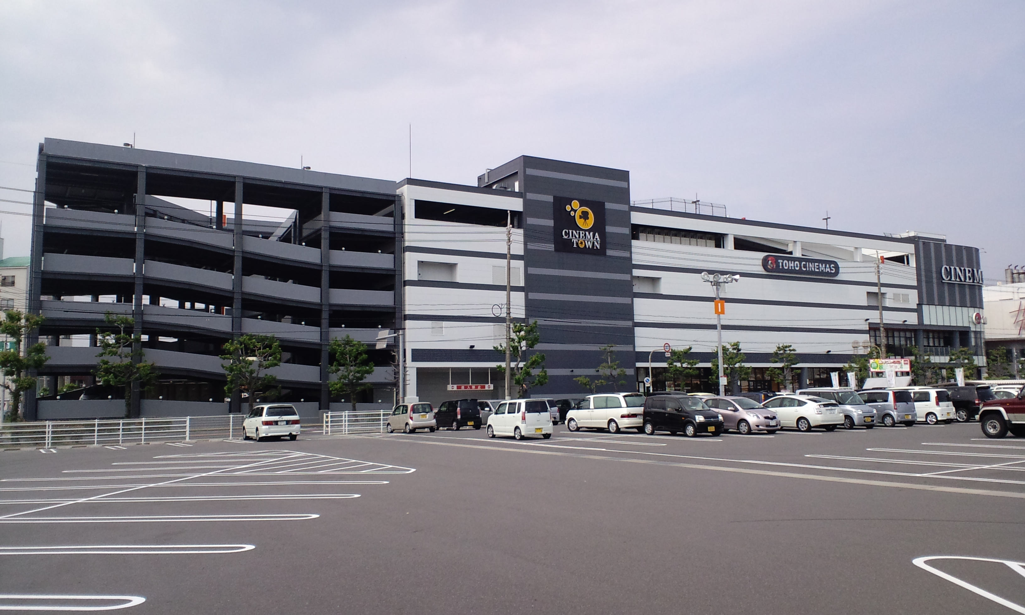 Panorama of CINEMA TOWN KOHNAN